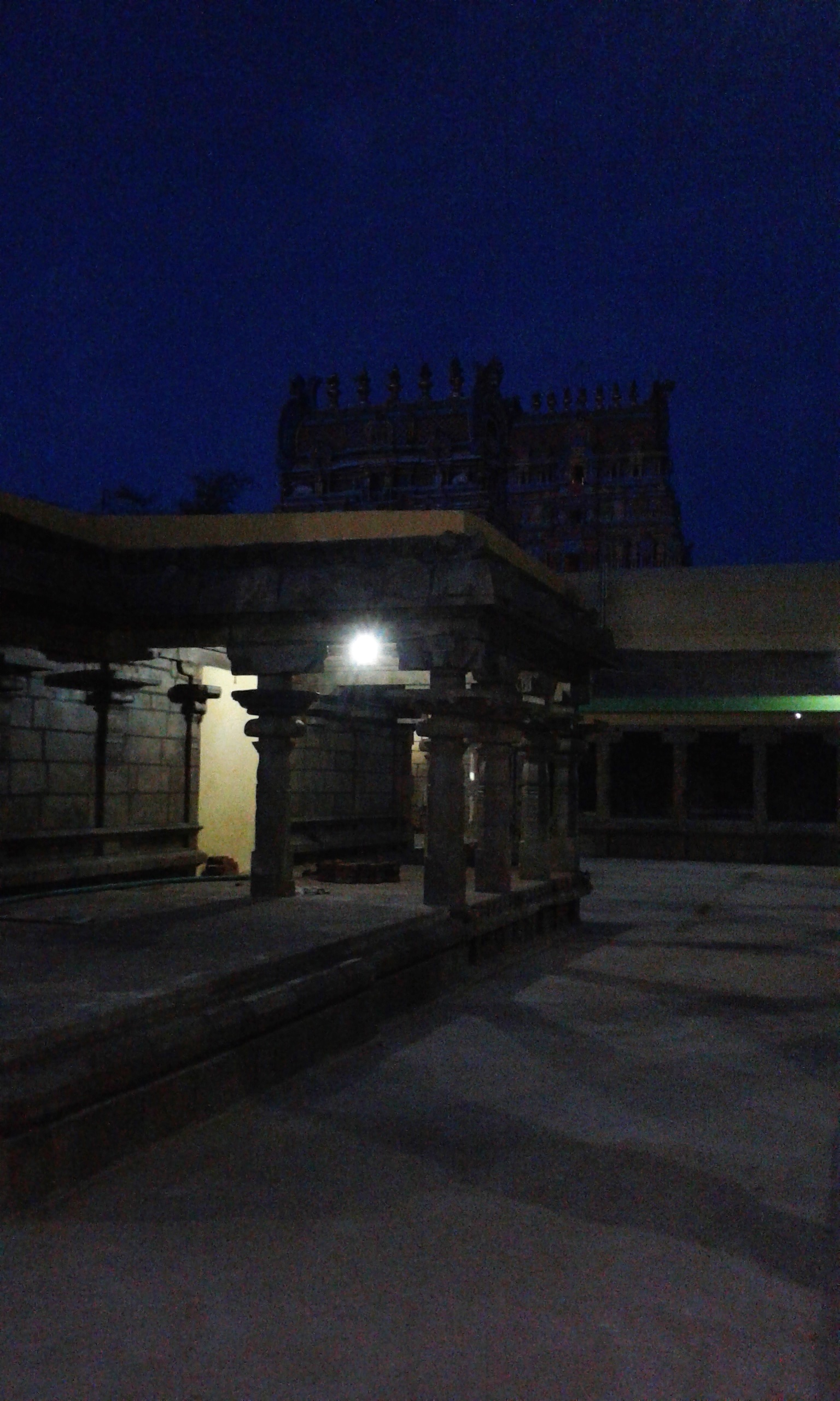 Tirumeeyachur Mehanadhar Temple